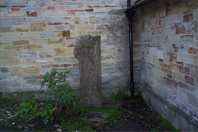 Celtic Cross St Agnes Parish Church This snuggles into a corner beside the Porch of the church.